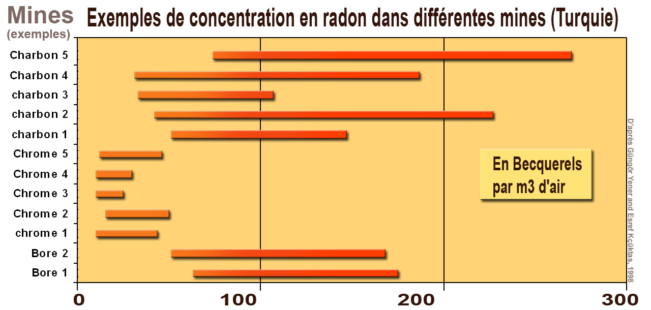 Examples of concentration of Radon in the air from different mines and various types of mines (in Turkey). These examples illustrate the variations of radon (a radioactive gas, a risk factor for lung cancer, and their importance in the case of coal mines. Source of data : Güngör Yener and Esref Küçükta, "Concentrations of radon and decay products in underground mines in Various western Turkey and total effective dose equivalent", Analyst, January 1998, Vol. 123 (31-34)